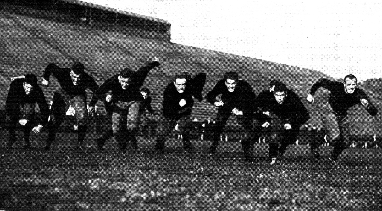 Photograph of players from the 1919 Michigan Wolverines football team with caption "Lookout Ahead!